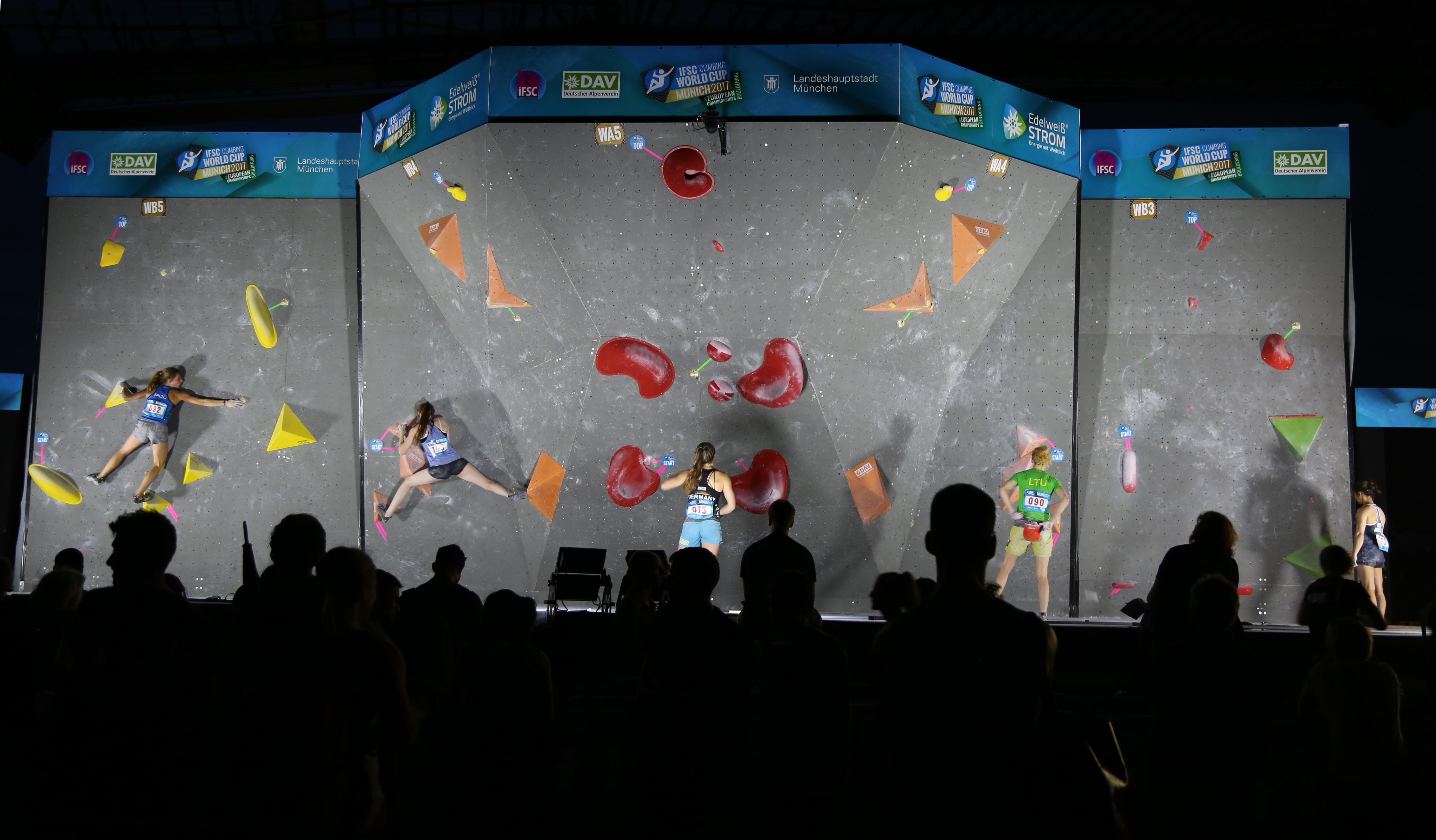 Boulder Worldcup 2017 in Munich, Germany